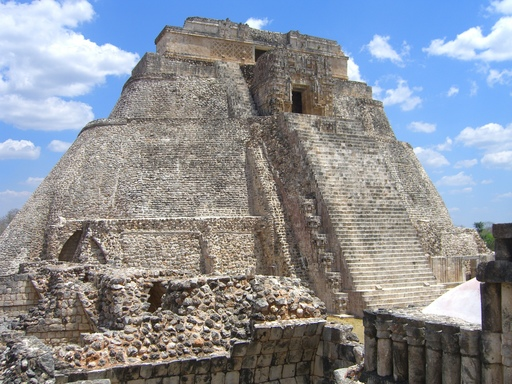 House of the Magician at Uxmal, Yucatán